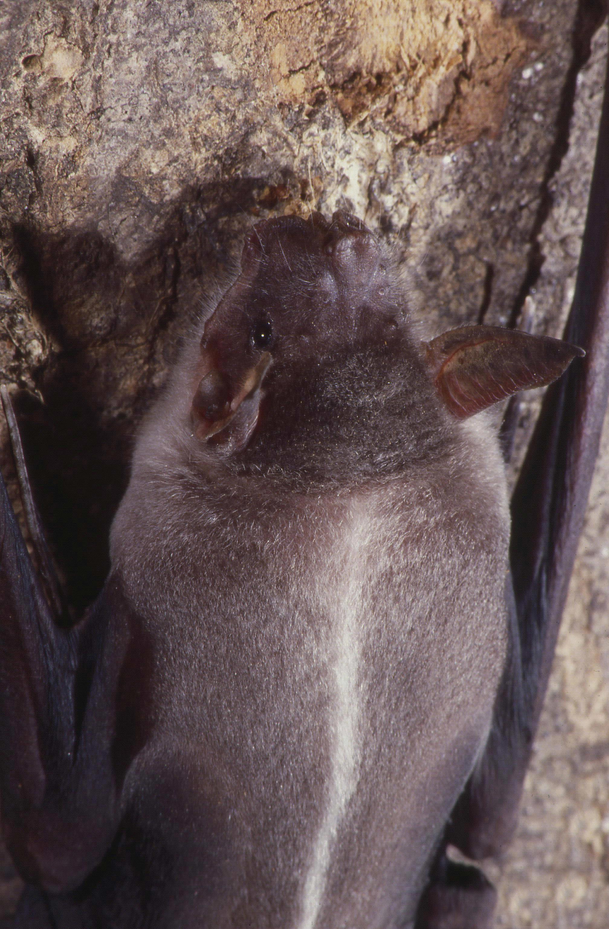 Greater Bulldog Bat or Fisherman Bat, Noctilio leporinus (Linnaeus, 1758), adult, captive specimen, originally captured from Puerto Rico, photographed in the United States